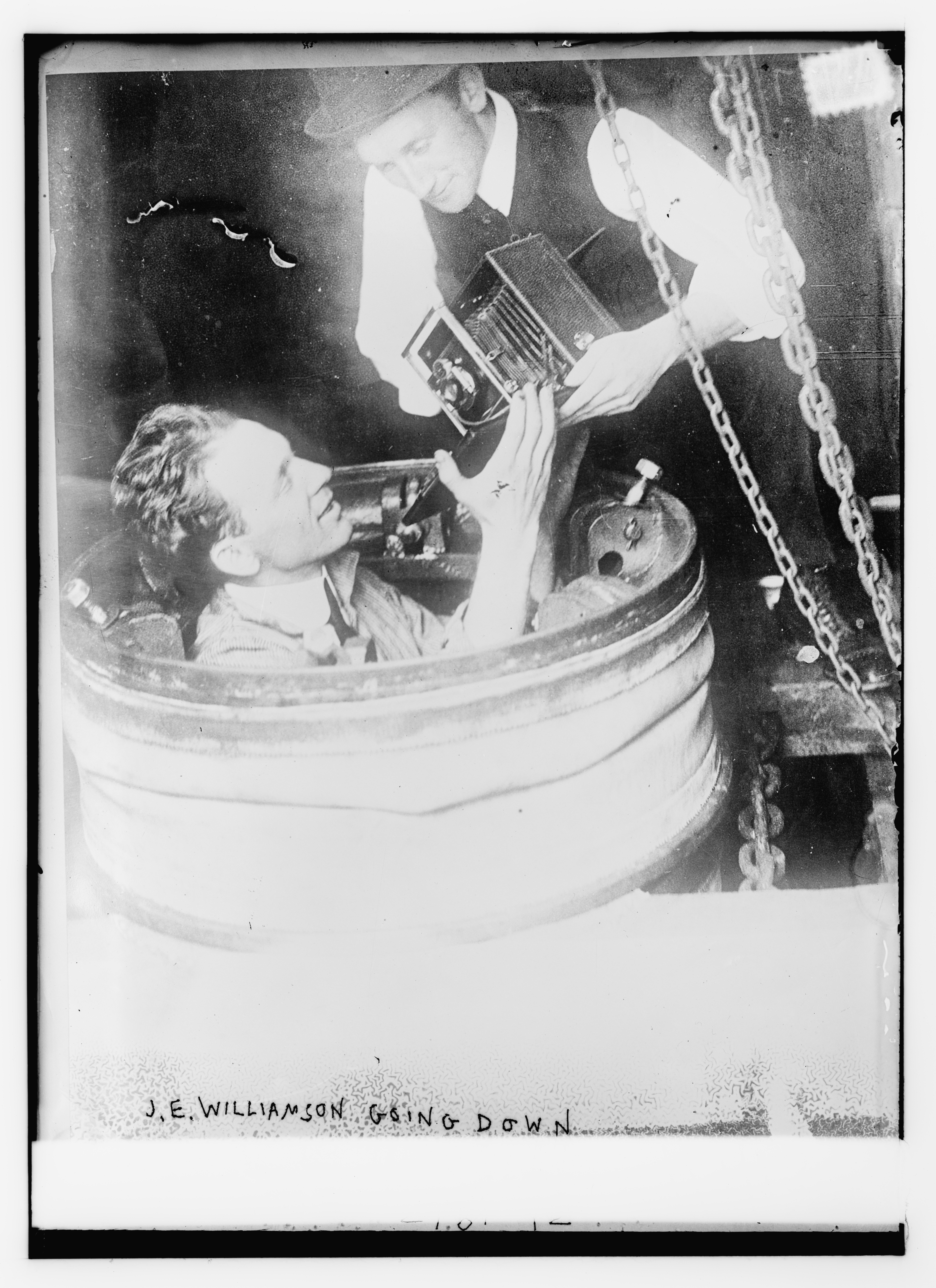 Bain News Service,, publisher. J.E. Williamson going down John Ernest Williamson [no date recorded on caption card] 1 negative : glass ; 5 x 7 in. or smaller. Notes: Title from unverified data provided by the Bain News Service on the negatives or caption cards. Forms part of: George Grantham Bain Collection (Library of Congress). Format: Glass negatives. Repository: Library of Congress, Prints and Photographs Division, Washington, D.C. 20540 USA, General information about the Bain Collection is available at Persistent URL: Call Number: LC-B2- 2781-12